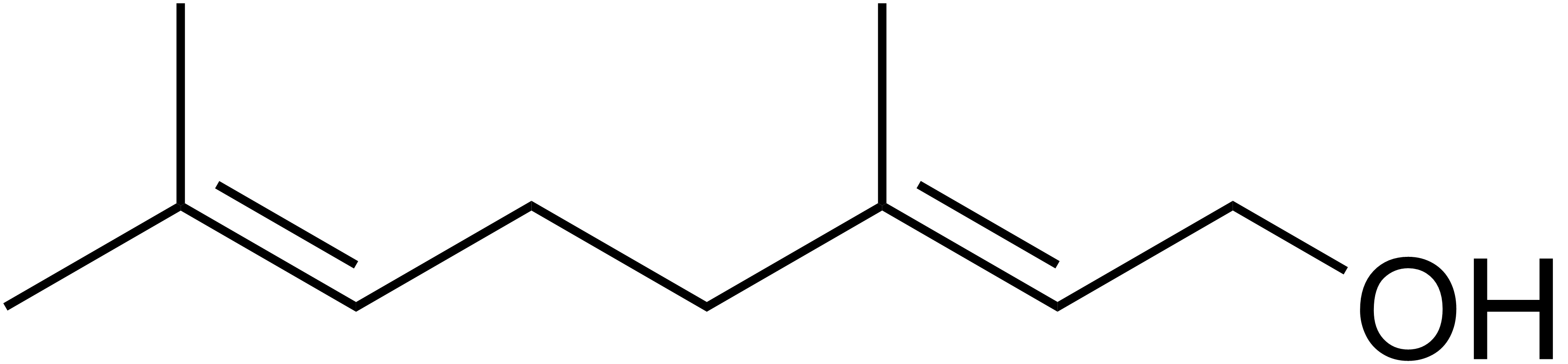 chemical structure of geraniol